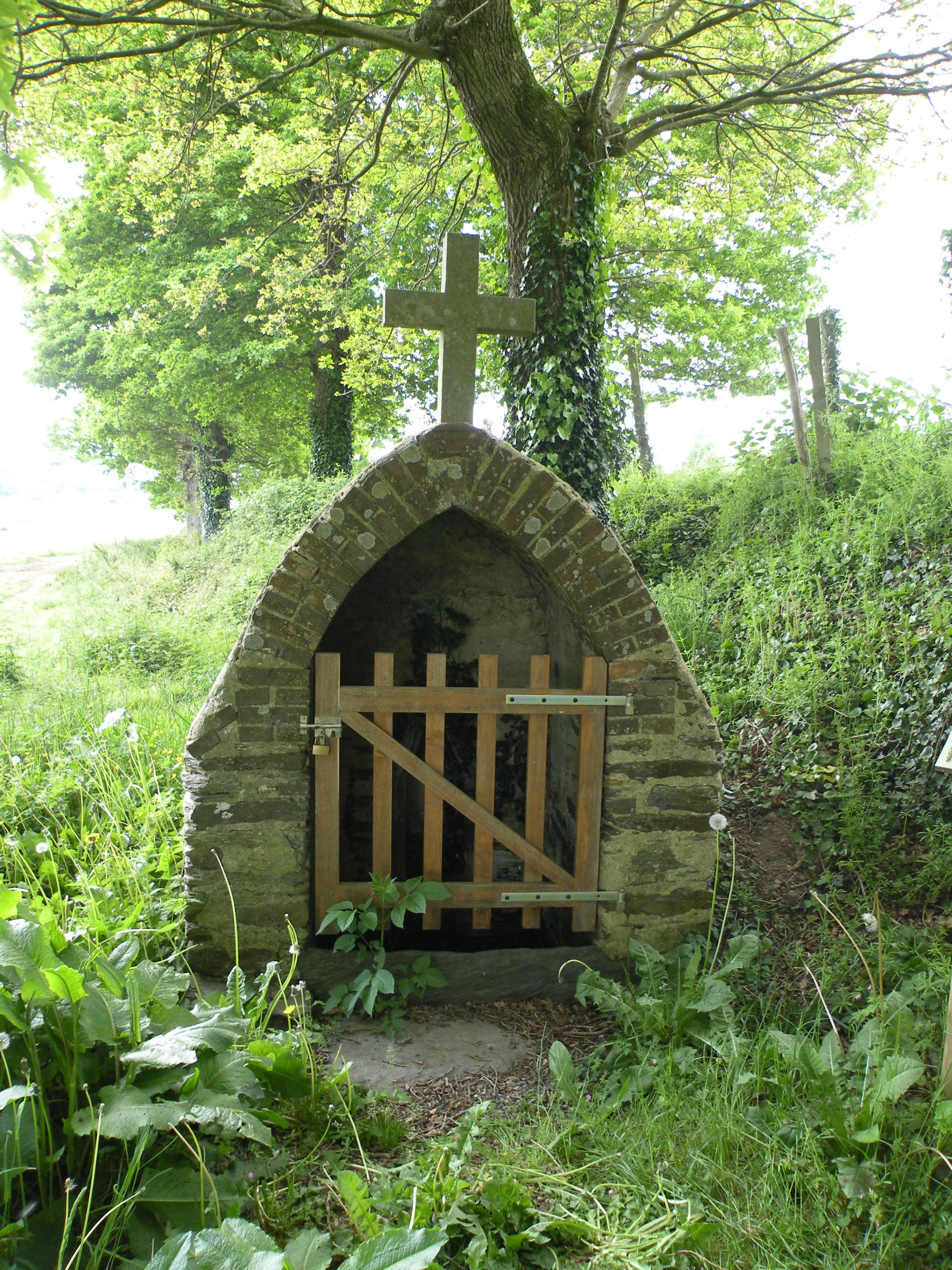 Saint-Eutorpe fountain in Saint-Ganton.